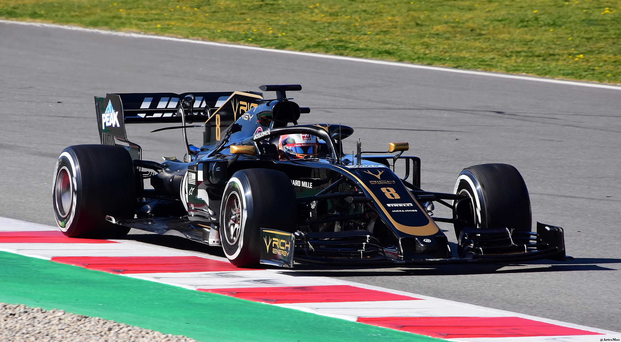 2019 Formula One tests Barcelona, Grosjean.